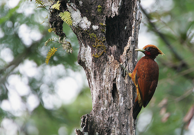 A beautiful rufous-chestnut Woodie! Image taken in the grounds of the Asa Wright Centre, Trinidad.